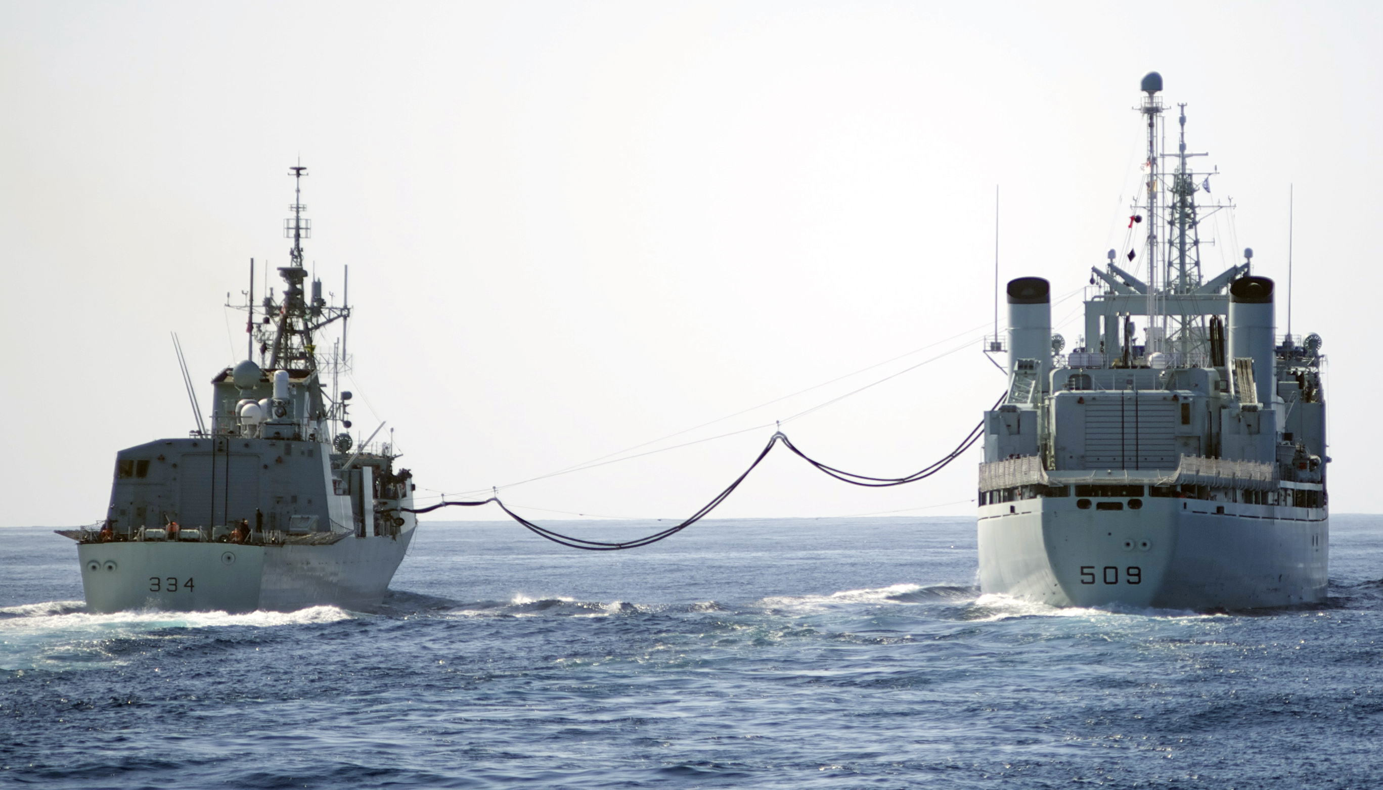 PACIFIC OCEAN (Oct. 10, 2013) The Canadian Halifax-class frigate HMCS Regina conducts an underway replenishment with the Canadian Protecteur-class auxiliary oiler replenishment ship HMCS Protecteur during a training exercise. The exercise trains independent deployers in air defense, anti-submarine and anti-surface warfare and maritime interdiction operations, while also building a strong working relationship between the maritime and aviation forces of the U.S. and Canada.